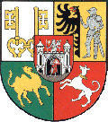 Small Coat of Arm of the city of Plzeň